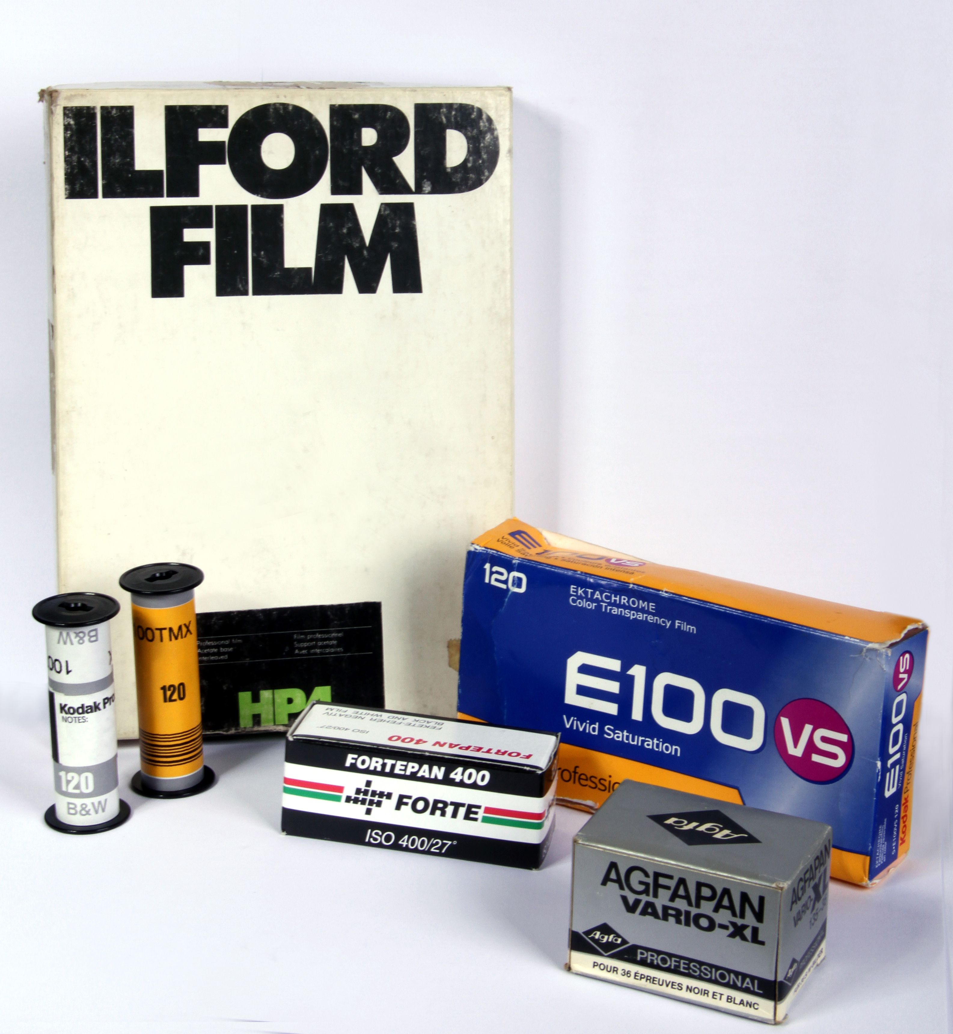 Some photography films.